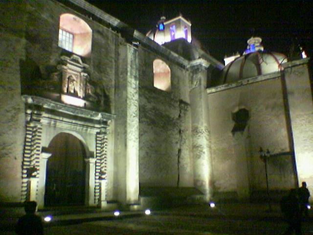 lateral de la iglesia de santo domingo en la noche